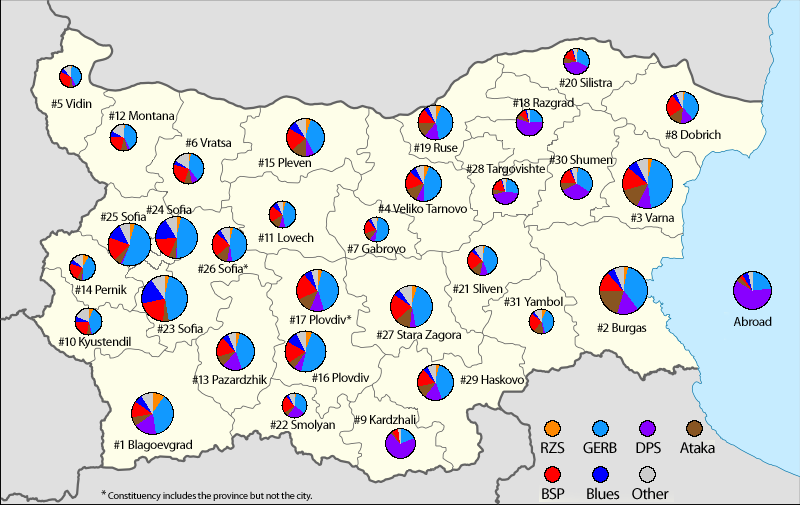 Bulgarian parliamentary election, 2009: vote distribution by constituency